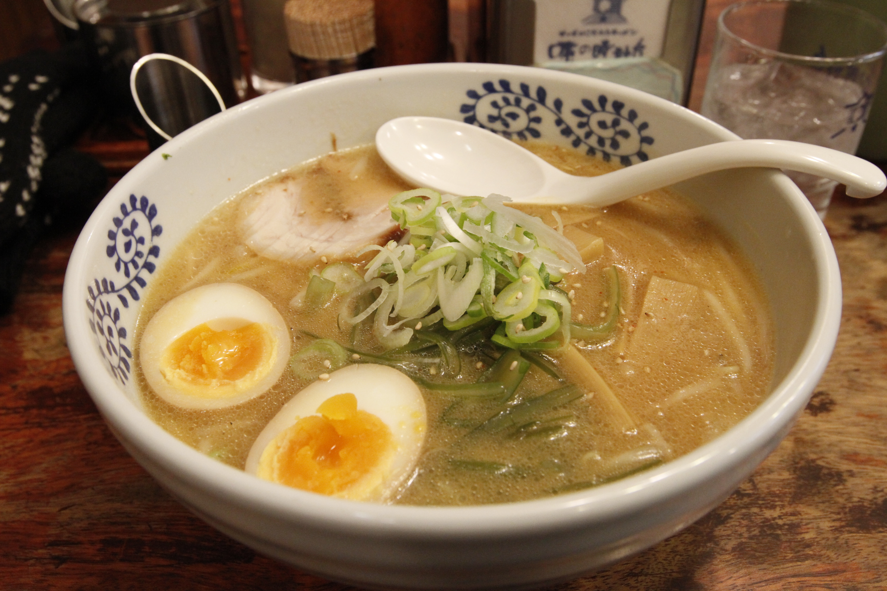 Ramen in Sapporo, Hokkaidō.